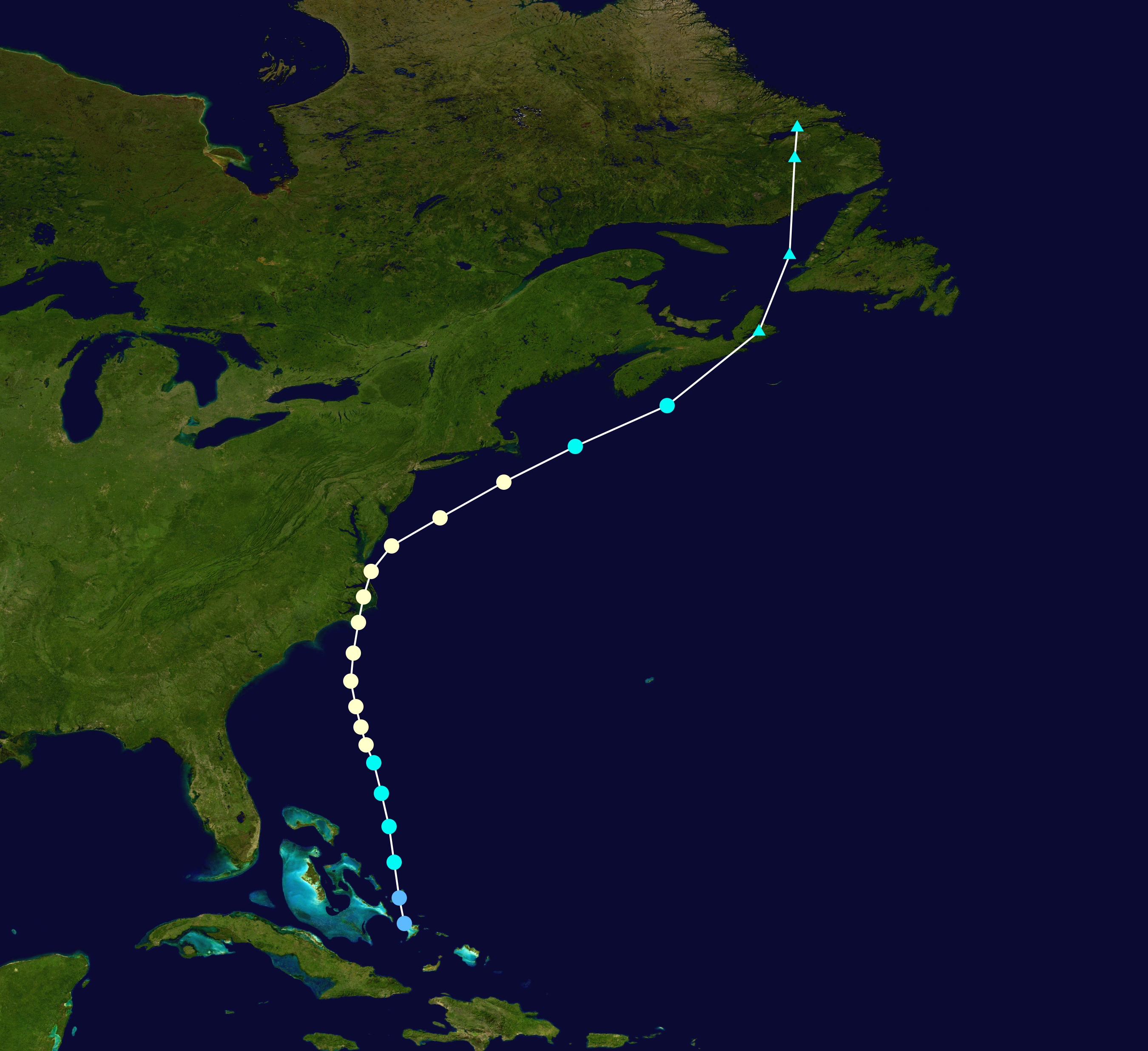 Track map of Hurricane Barbara of the 1953 Atlantic hurricane season. The points show the location of the storm at 6-hour intervals. The colour represents the storm's maximum sustained wind speeds as classified in the Saffir–Simpson hurricane wind scale (see below), and the shape of the data points represent the nature of the storm, according to the legend below. Saffir–Simpson hurricane wind scale Tropical depression≤38 mph≤62 km/h Category 3111–129 mph178–208 km/h Tropical storm39–73 mph63–118 km/h Category 4130–156 mph209–251 km/h Category 174–95 mph119–153 km/h Category 5≥157 mph≥252 km/h Category 296–110 mph154–177 km/h Unknown Storm typeTropical cycloneSubtropical cycloneExtratropical cyclone / Remnant low / Tropical disturbance